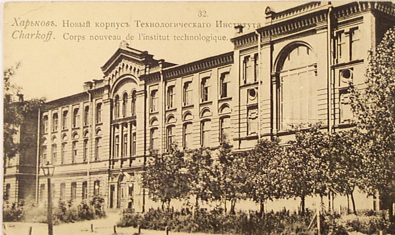 New Corp KhTI. Vintage postcard